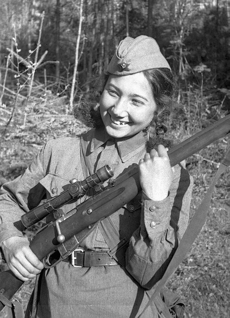 Azerbaijani sniper Ziba Ganiyeva. Photo from a November 1942 newspaper clipping, which stated she killed 28 fascists.